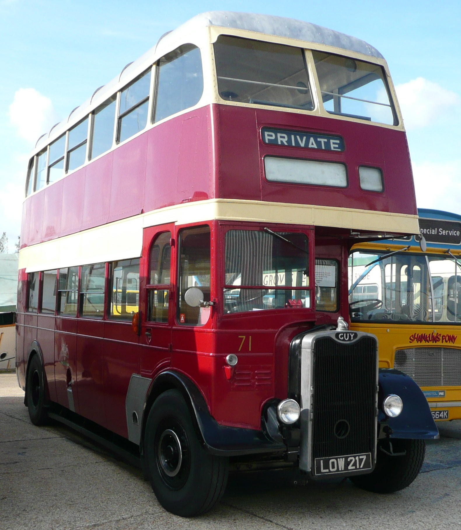 Preserved ex-Southampton Corporation 71 (LOW 217), a 1954 Guy Arab MKIII, at the 2008 Isle of Wight Bus Museum running day.